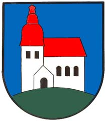 Herb Donnerskirchen, Burgenland